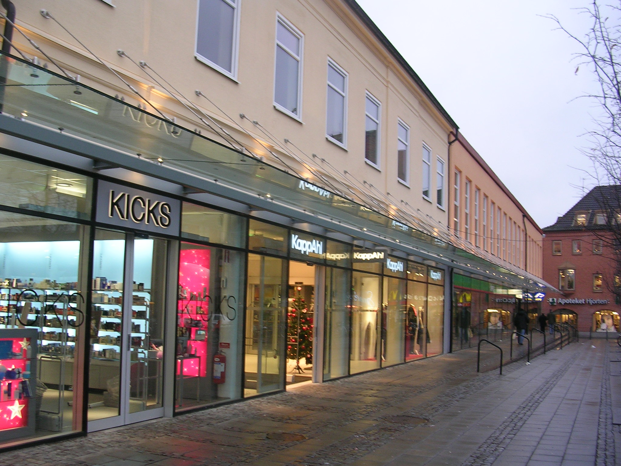 Author: Väsk Date: December 2005